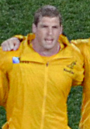 RWC 2011 - Australia Vs Ireland RWC 2011 - Australia Vs Ireland